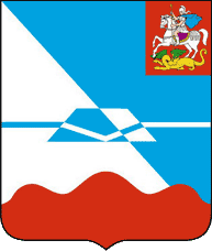 Krasnogorsk (Moscow oblast), coat of arms